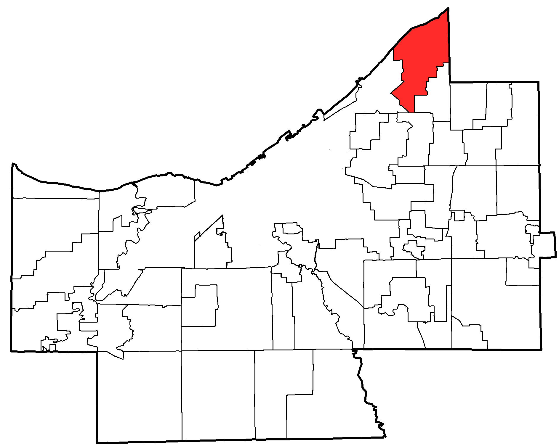 Euclid, Ohio This map shows the community's extent in Cuyahoga County, Ohio. Base map, Image:Cuyahoga_County.png, was created by User:Clevelander. Highlights were made by User:DangApricot.